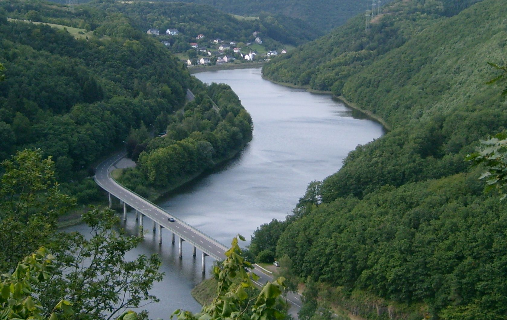 The Bridge near the Bivels mill, Luxembourg.